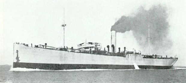 Eastern Shore, 11,000 tons deadweight, built by Suzuki for the Shipping Board.